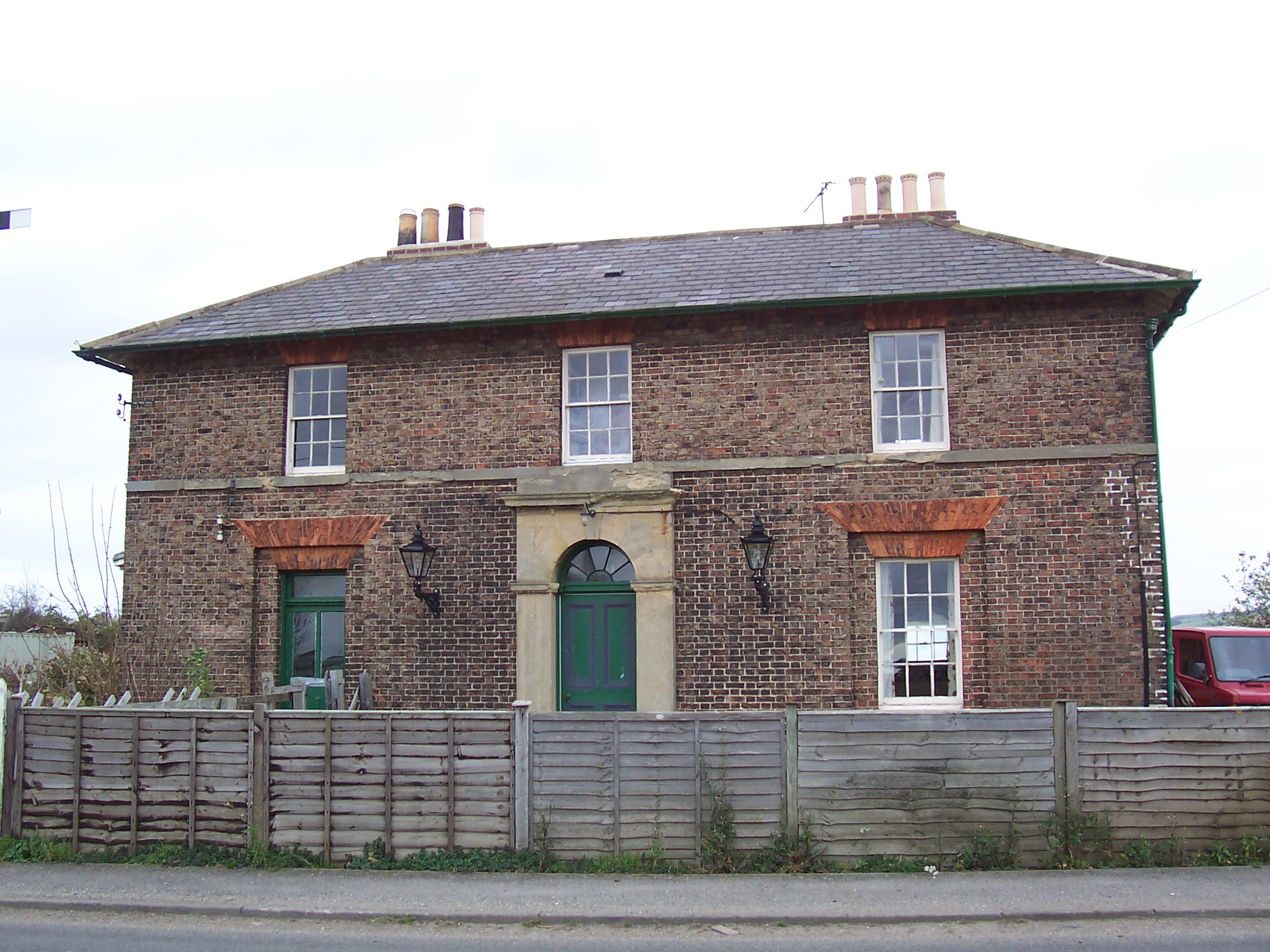 The old station at Weaverthorpe. Taken by William Arthur, 8th November 2007.